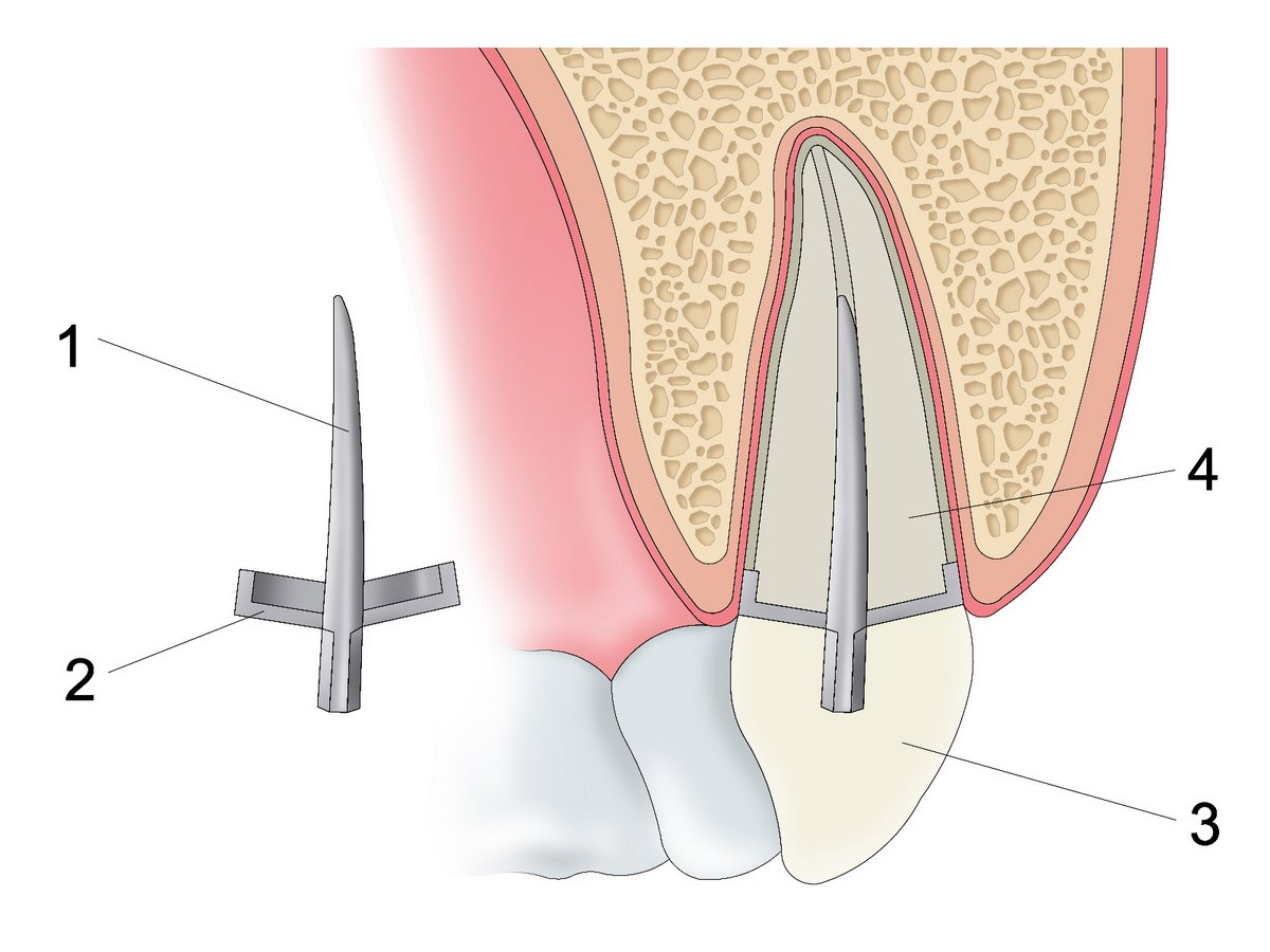 Richmond crown (1 - post, 2 - cap, 3 - crown, 4 - root)